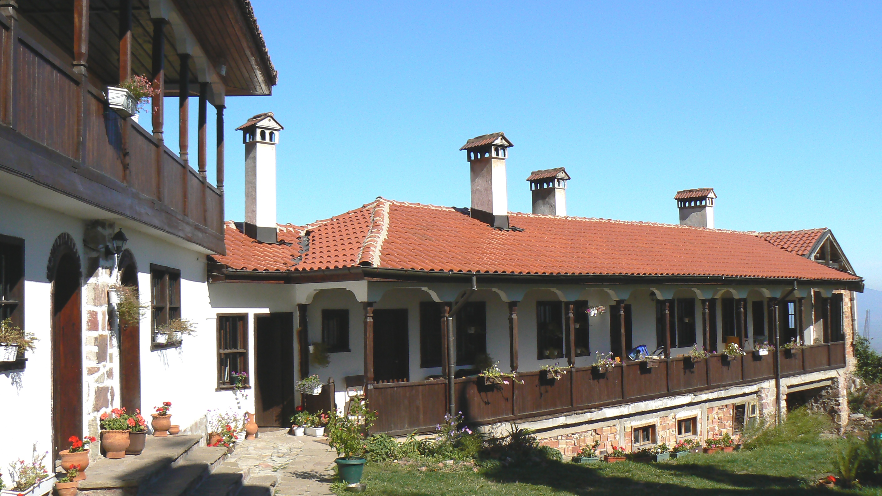 Lozen monastery "Saint Spas", Bulgaria